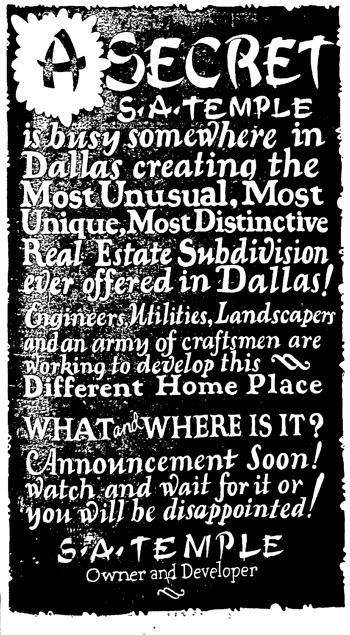 Ad promoting Beckley Club Estates (first ad)